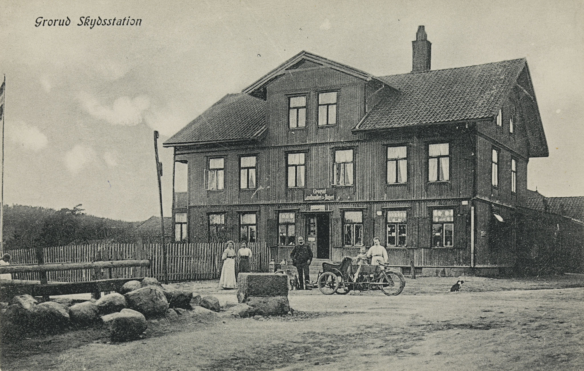 Tittel / Title: Grorud Skydsstation Beskrivelse / Description: Postkort. Dato / Date: ukjent / unknown Fotograf / Photographer: ukjent / unknown Utgiver / Publisher: Küenholdts Kunstforlag Sted / Place: Oslo, Grorud Eier / Owner Institution: Nasjonalbiblioteket / National Library of Norway Lenke / Link: Bildesignatur / Image Number: bldsa_PK03032